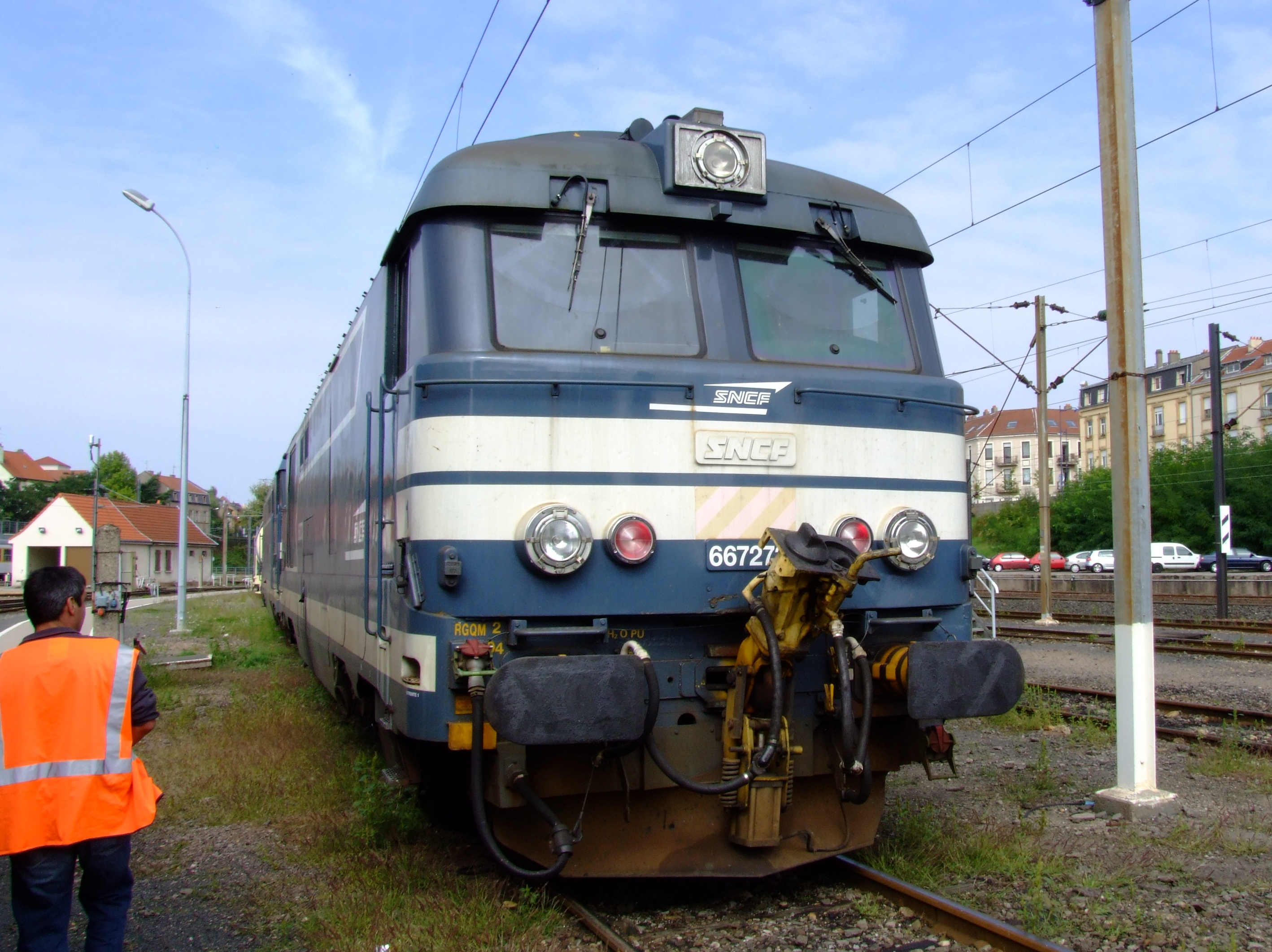 Photographed in Metz, France.